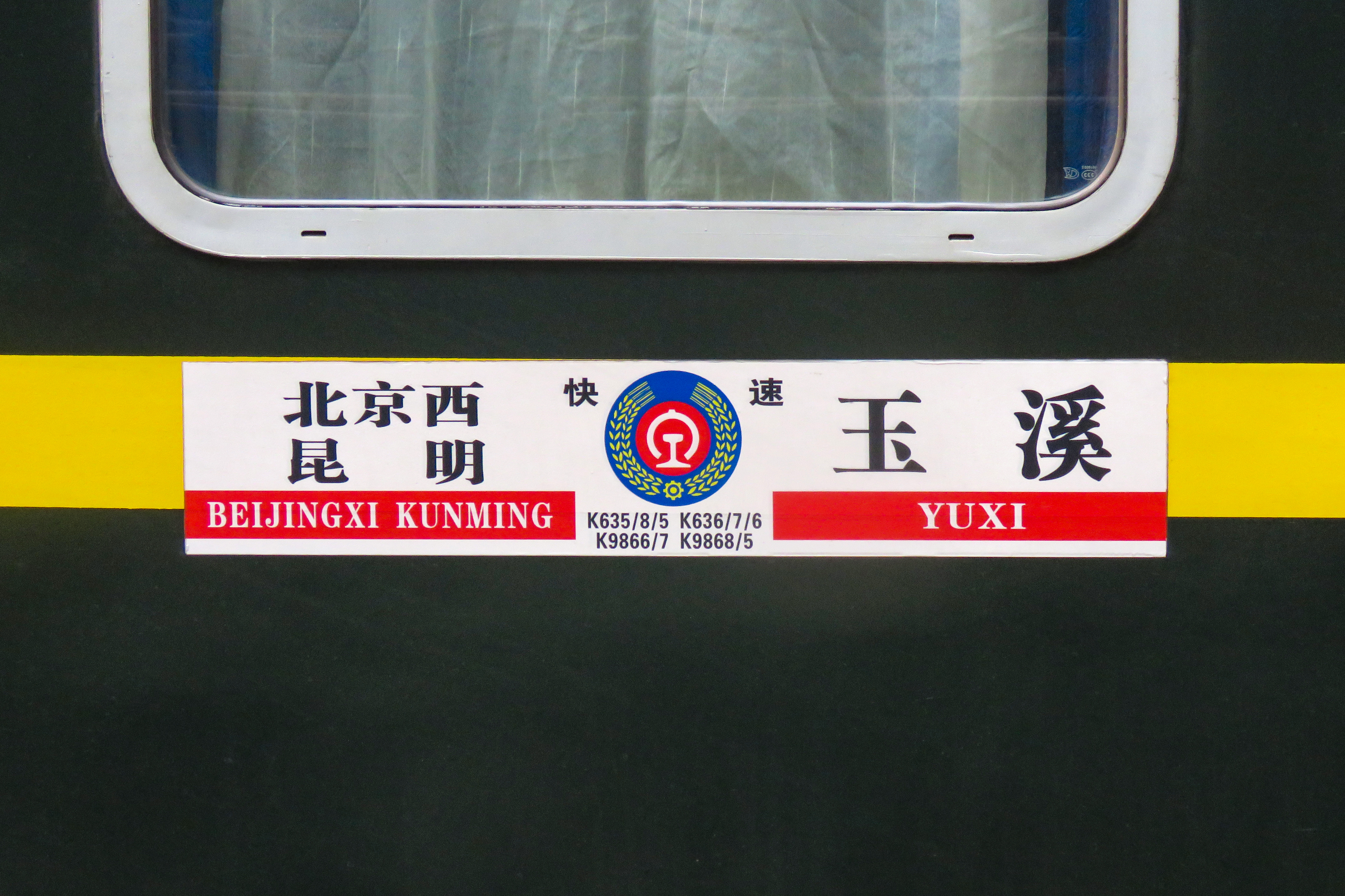 This train is bound for Yuxi.